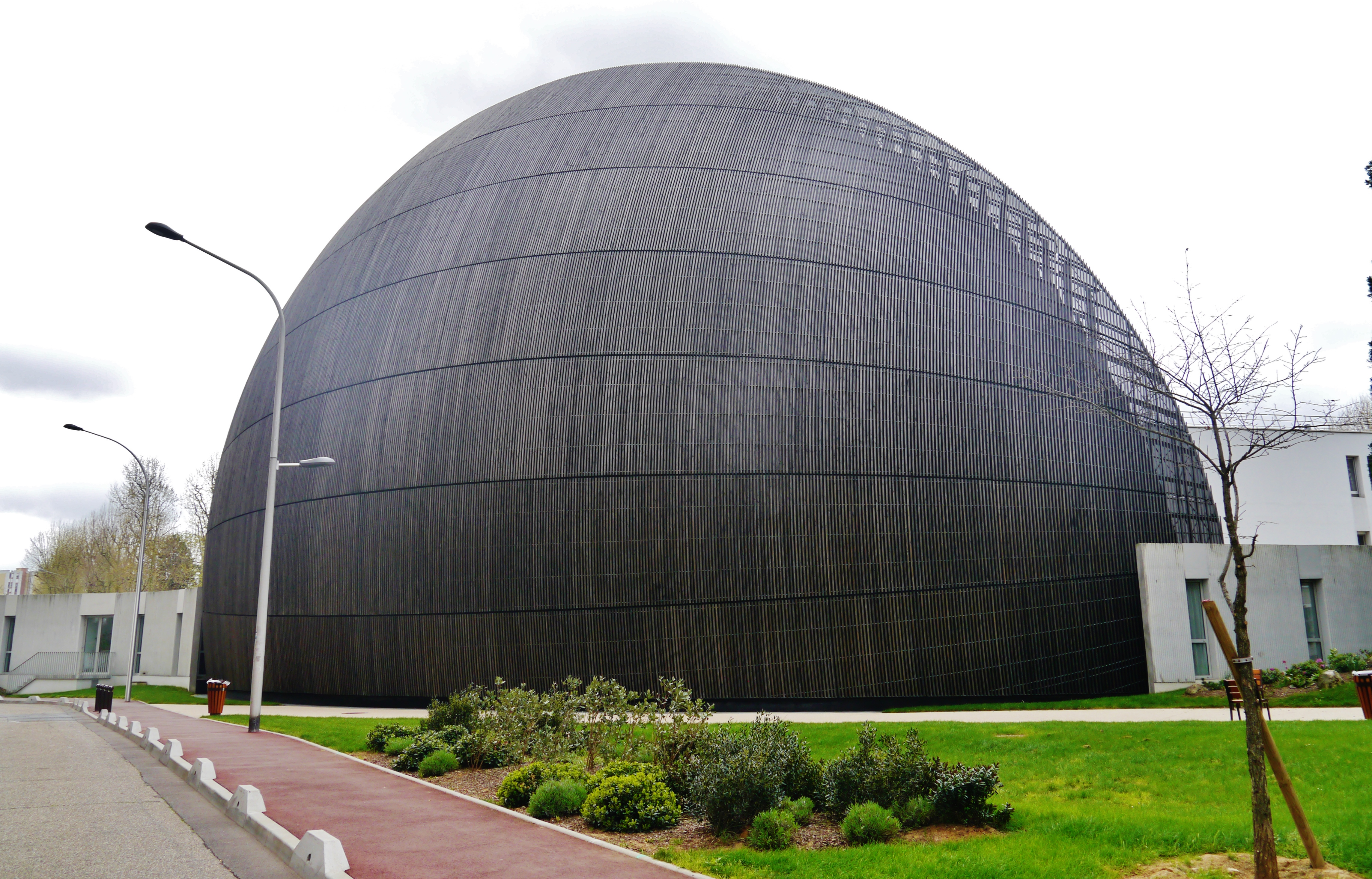 Backside of the Cathedral of Our Lady, Créteil, Departement of Val-de-Marne, Region of Île-de-France, France